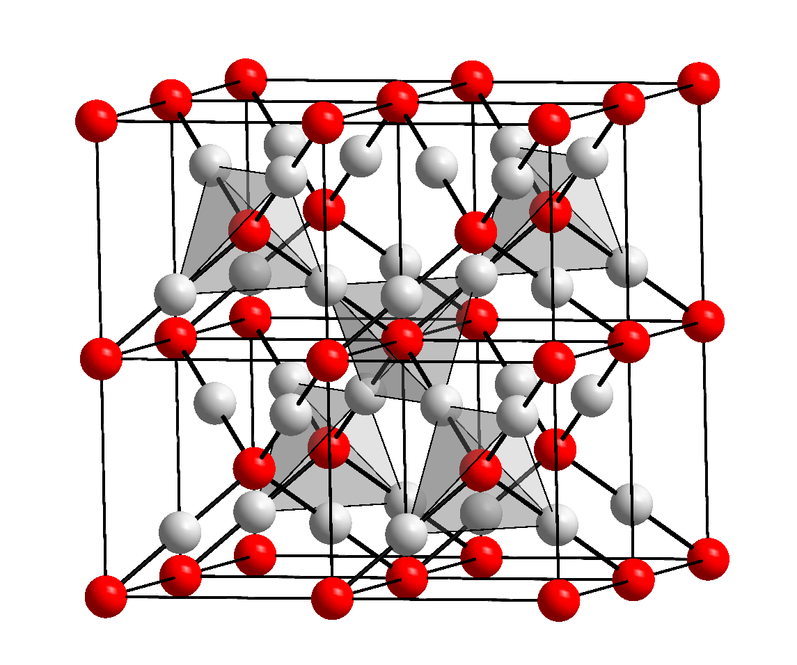 crystal structure of copper(I) oxide